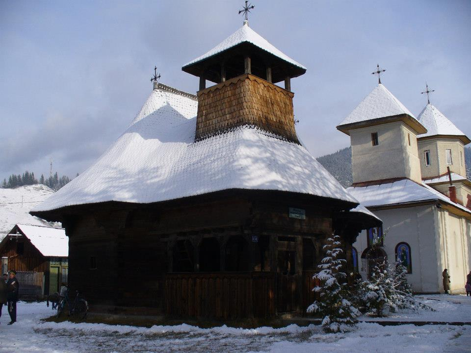 Biserica de lemn din Broşteni